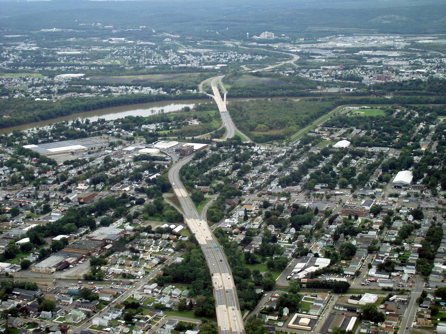 PA-309 snaking across Wyoming Valley as North Cross Valley Expressway